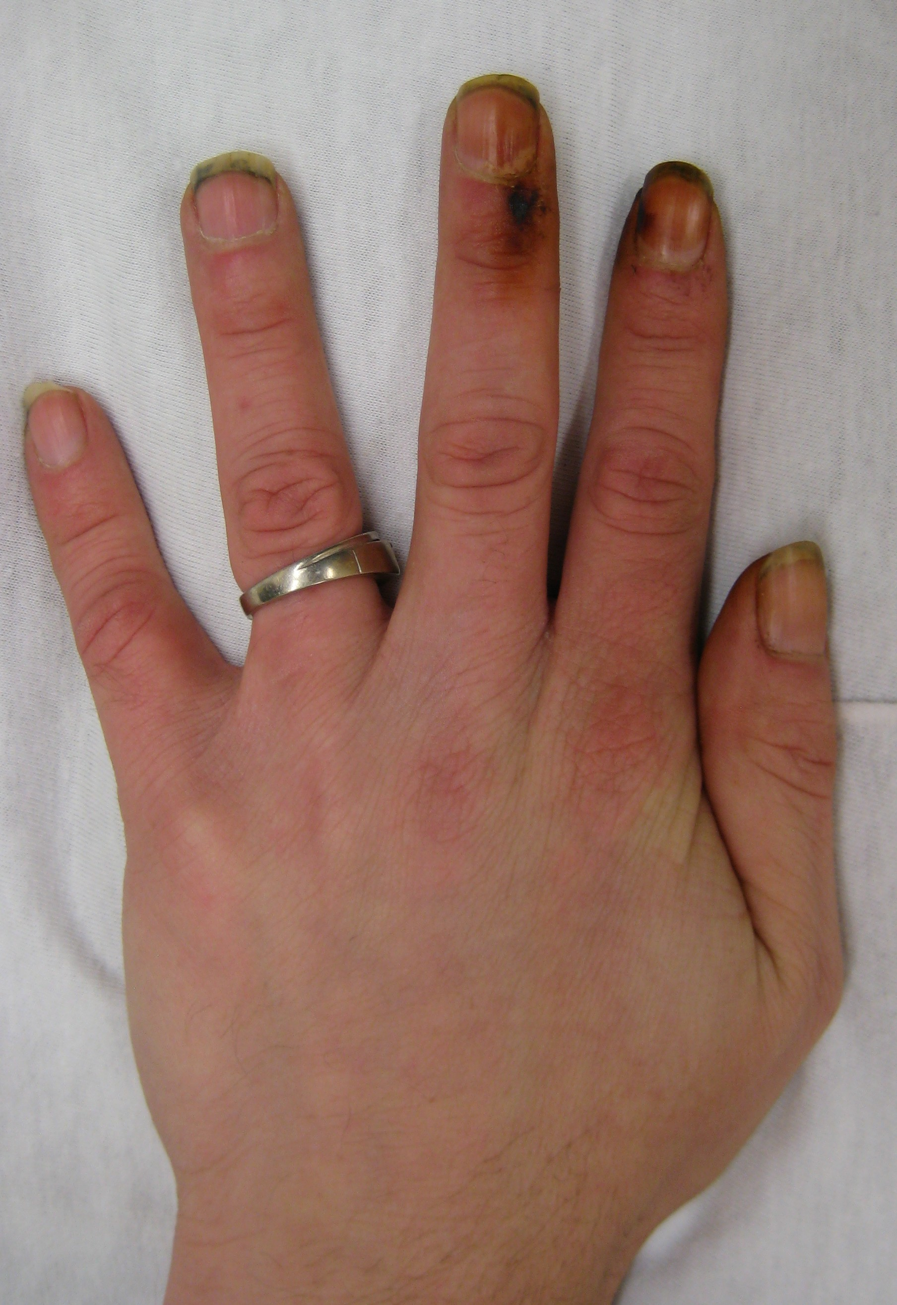 Tar stains on primarily the 2nd and 3rd fingers in a heavy smoker.